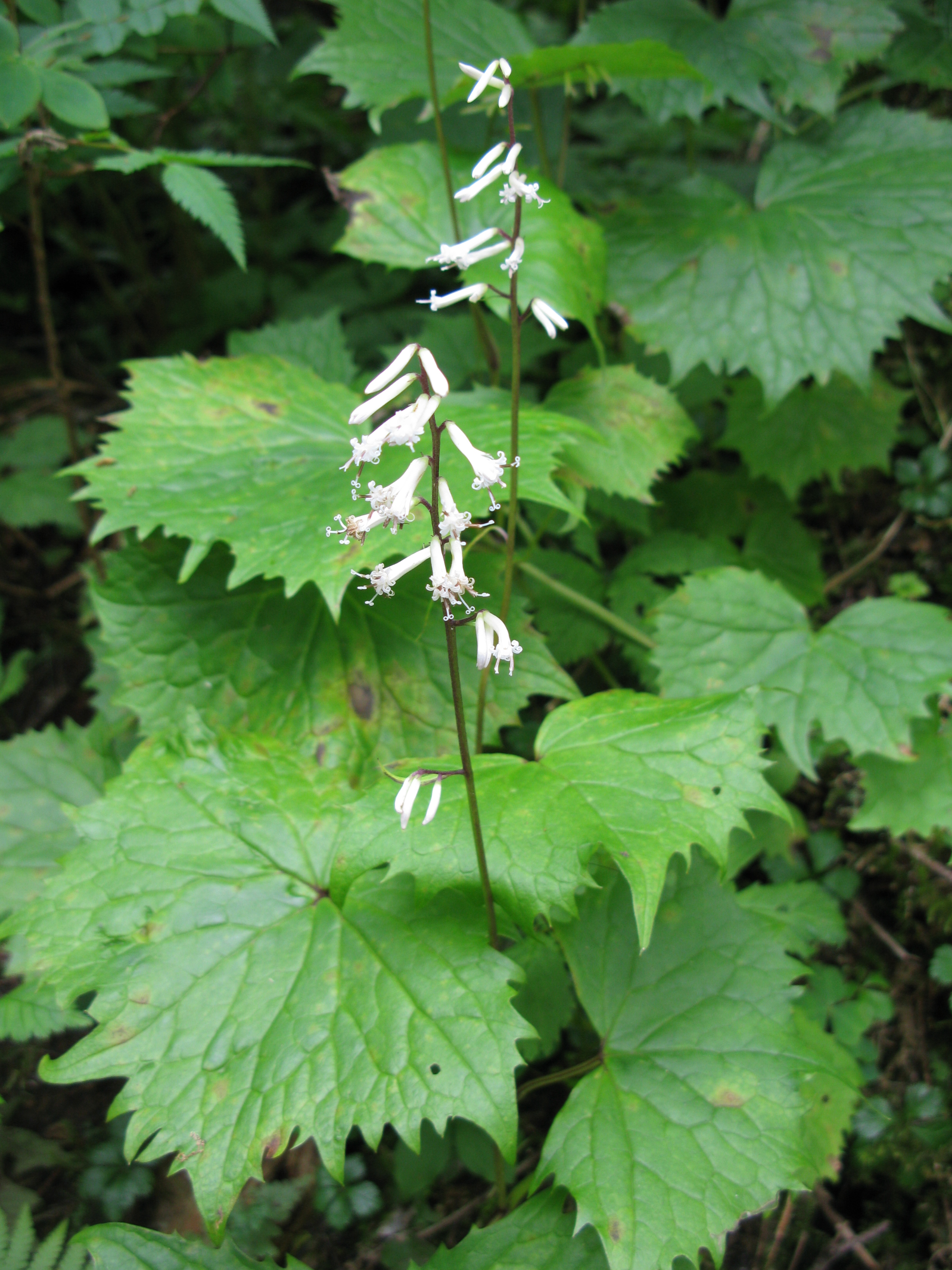 Parasenecio adenostyloides,Mt.Nishiazuma-yama,Yamagata pref.,Japan